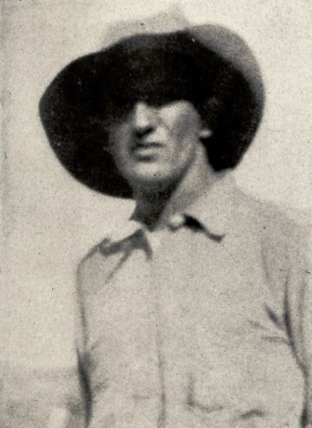 Arizona cowboy and artist Ross Santee, on page 55 of the November 1922 Shadowland.